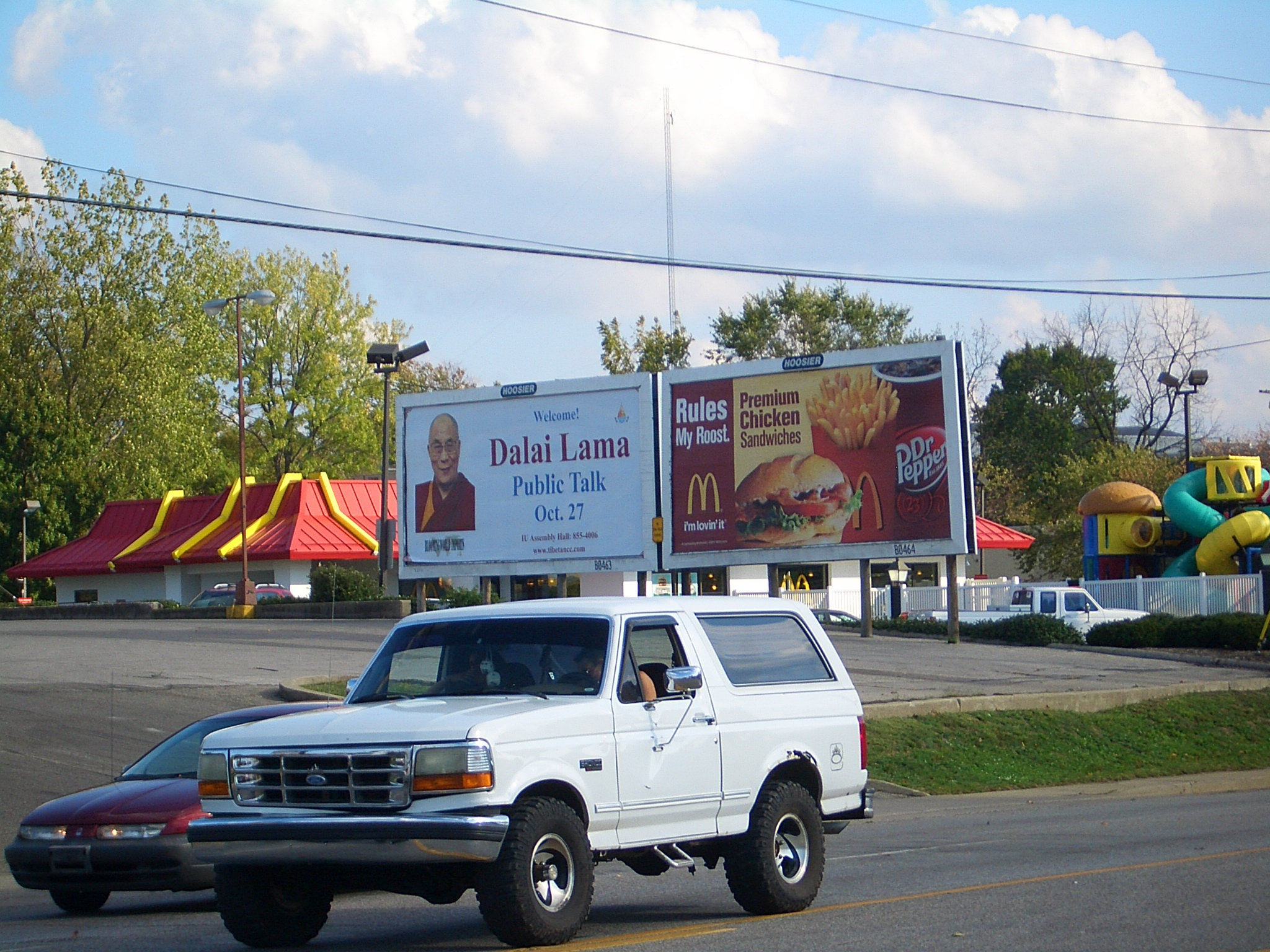 Billboards in Bloomington announce the upcoming visit of Dalai Lama